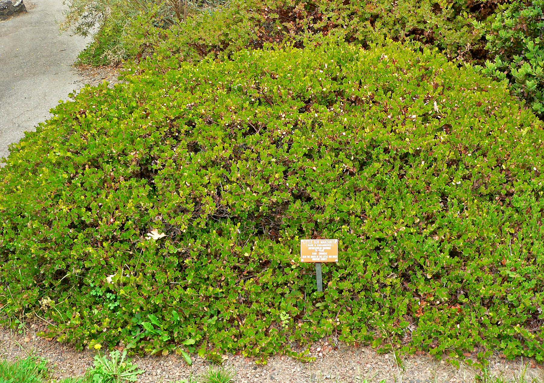 Photo of Arctostaphylos edmundsii at Regional Parks Botanic Garden, Berkeley Hills.